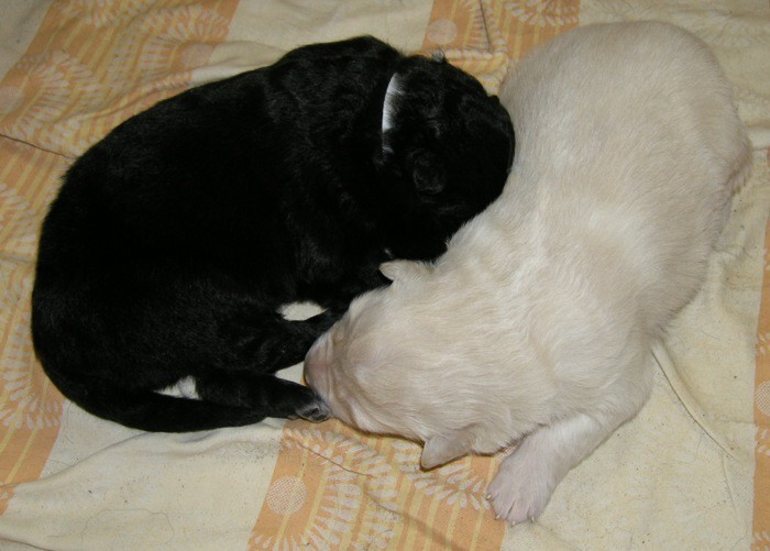 Puppies, 10 days Česky: Štěňata, 10 dní